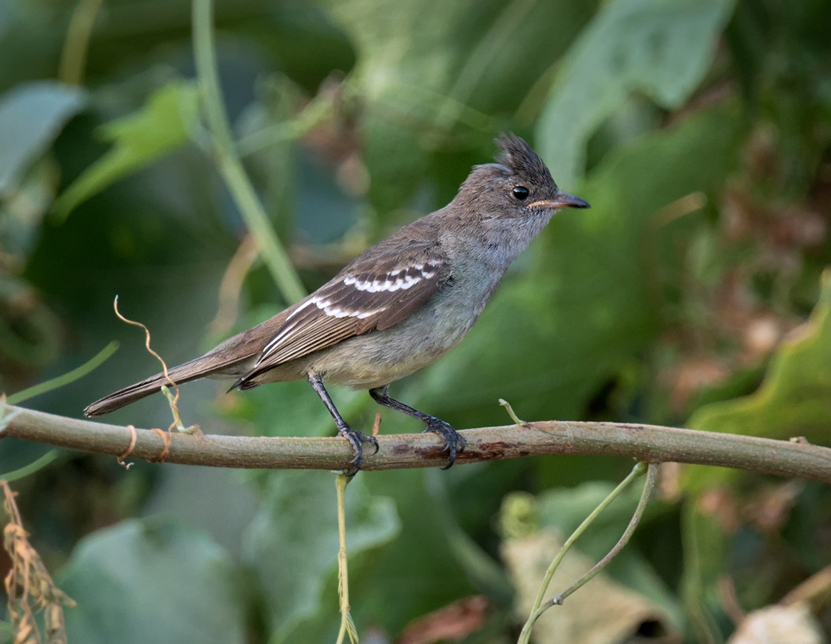 Noronha elaenia at Fernando de Noronha - Brazil